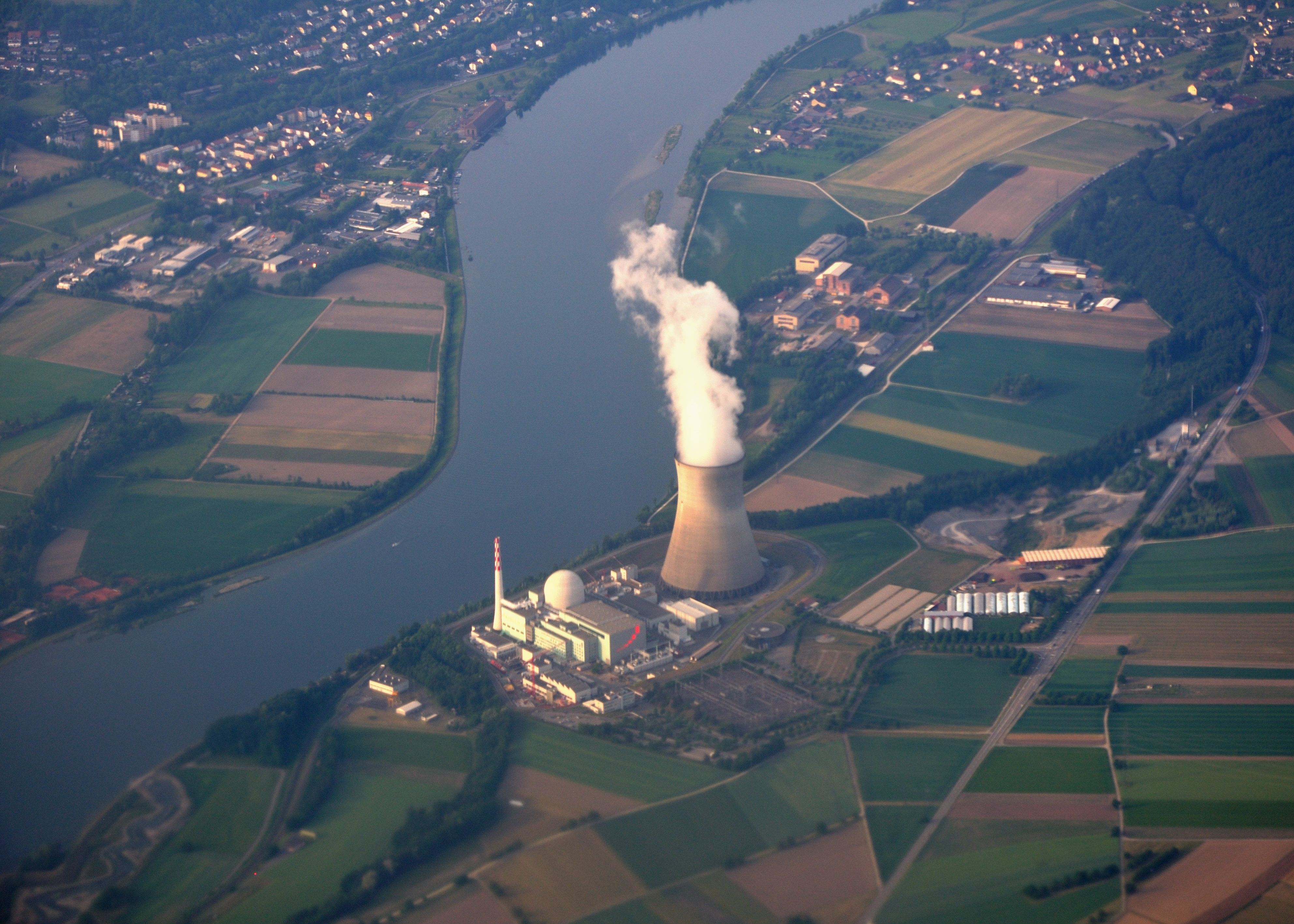 Switzerland, Aargau, aerial view of the nuclear power plant in Leibstadt